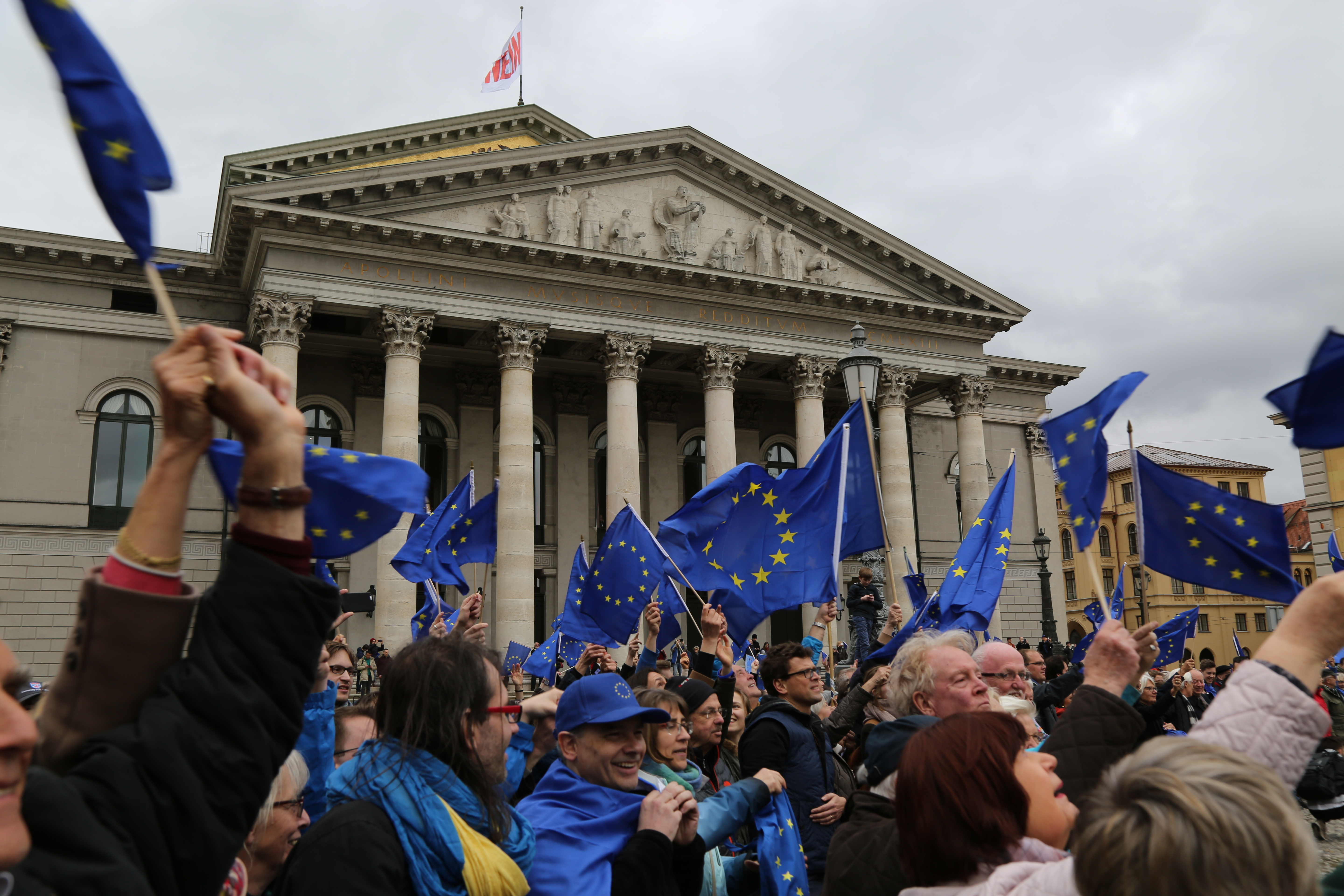 Pulse of Europe Gathering in Munich, Germany